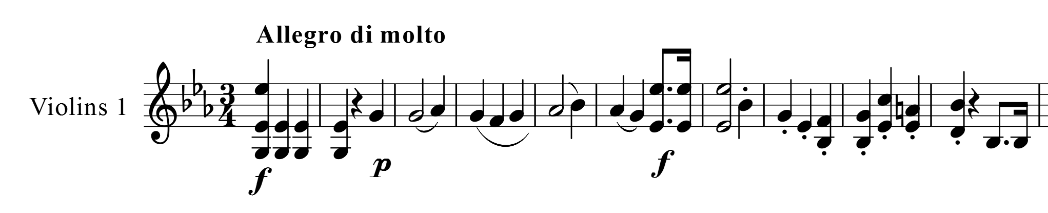 Joseph Haydn, Symphony No. 55, first movement, bar 1-10